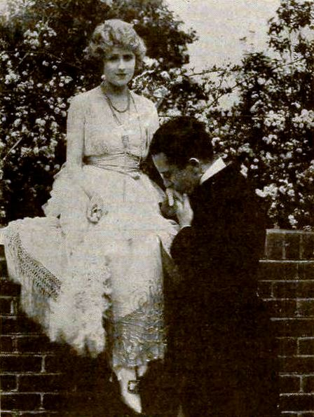 Still from the American society comedy film Fools and Their Money (1919) with Emmy Wehlen, on page 1989 of the June 28, 1919 Moving Picture World.